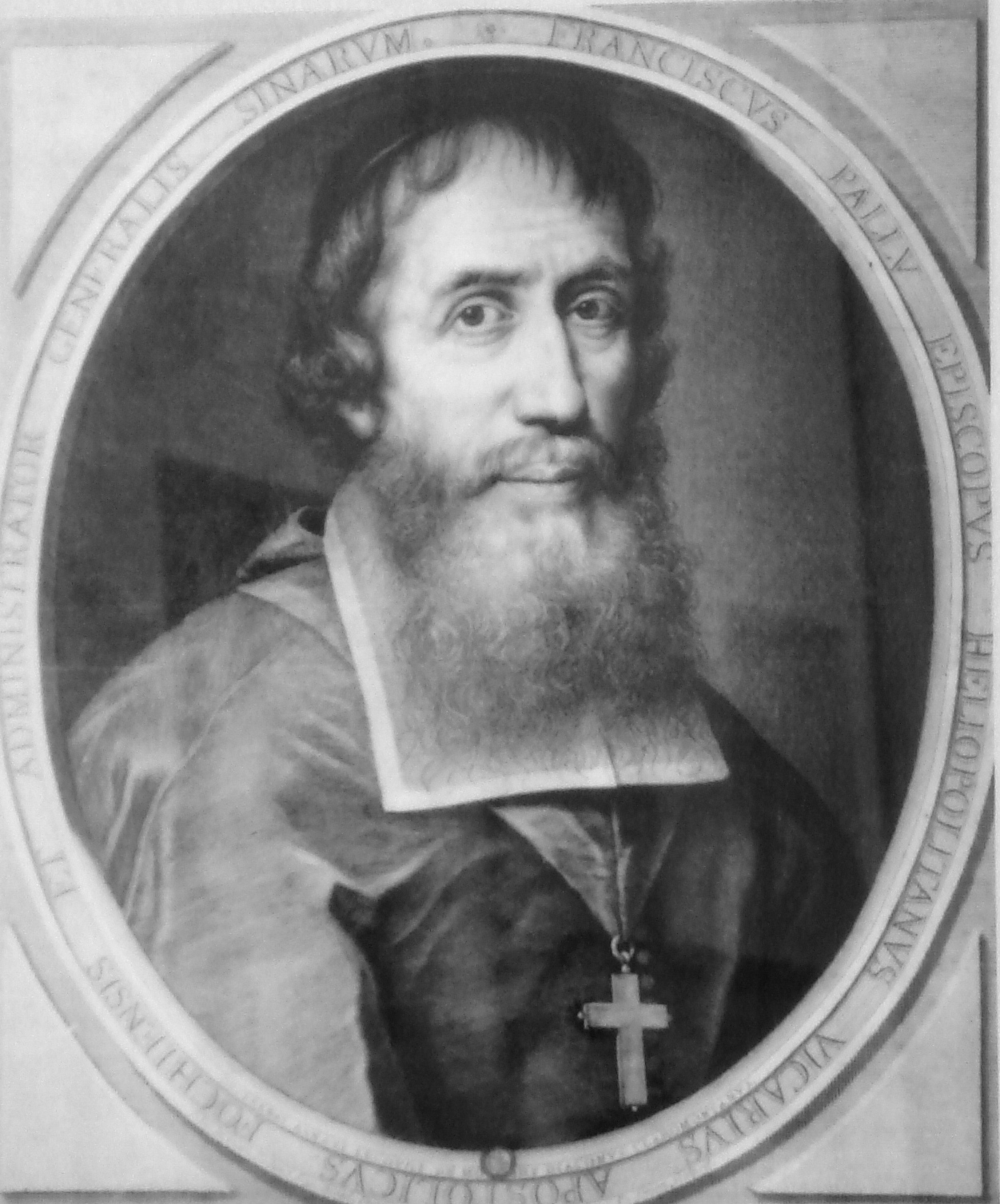 Mgr_Francois_Pallu